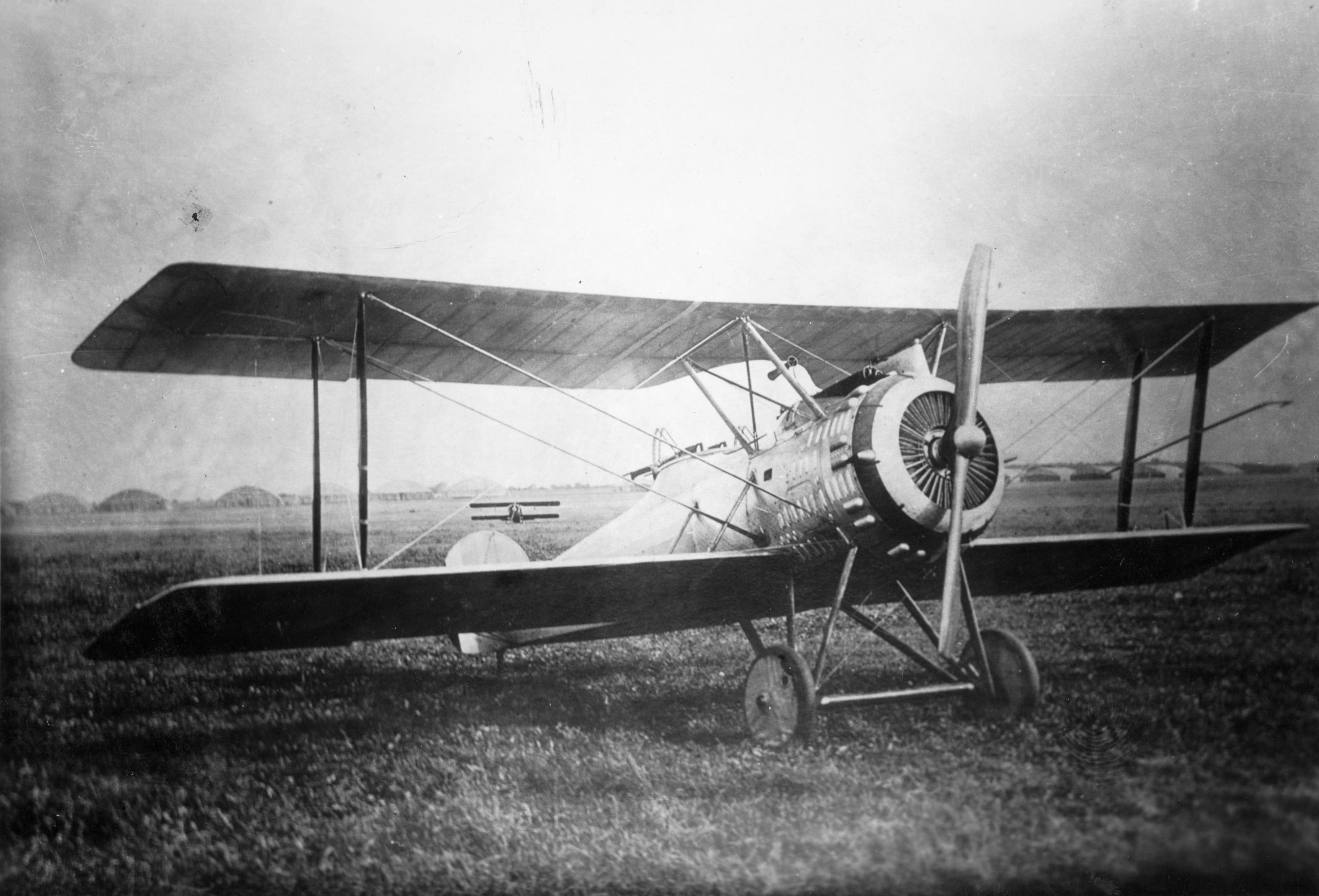 Hanriot HD.3 (FQ)